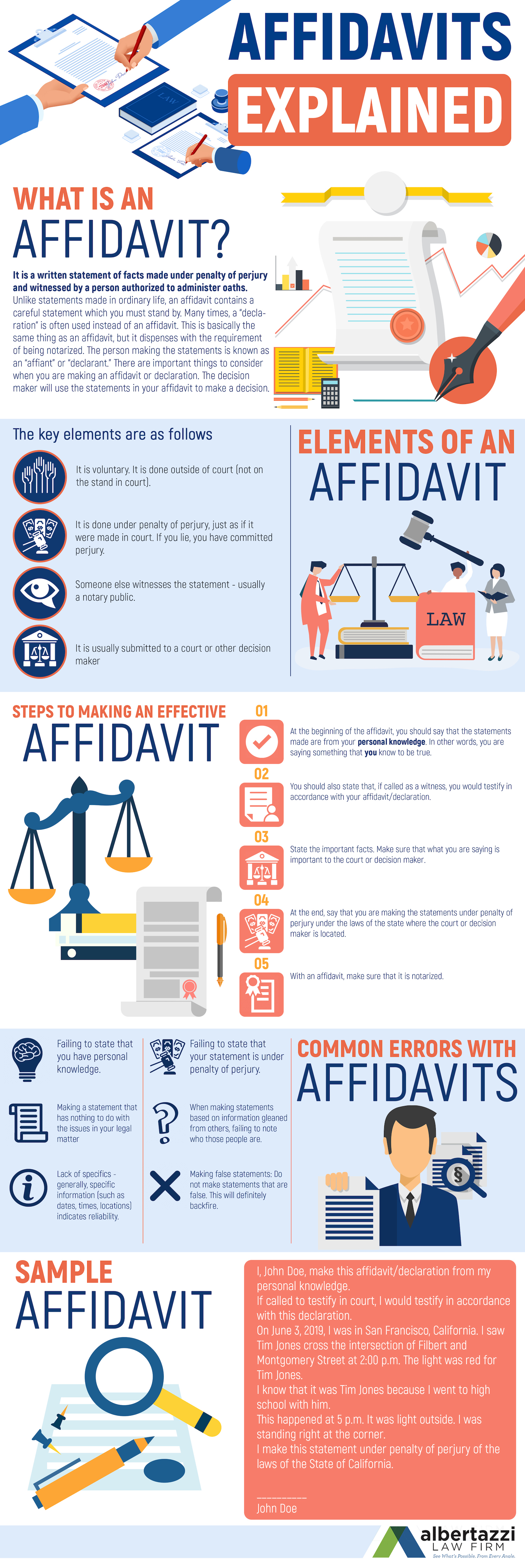 The main steps and things to remember when making an affidavit.